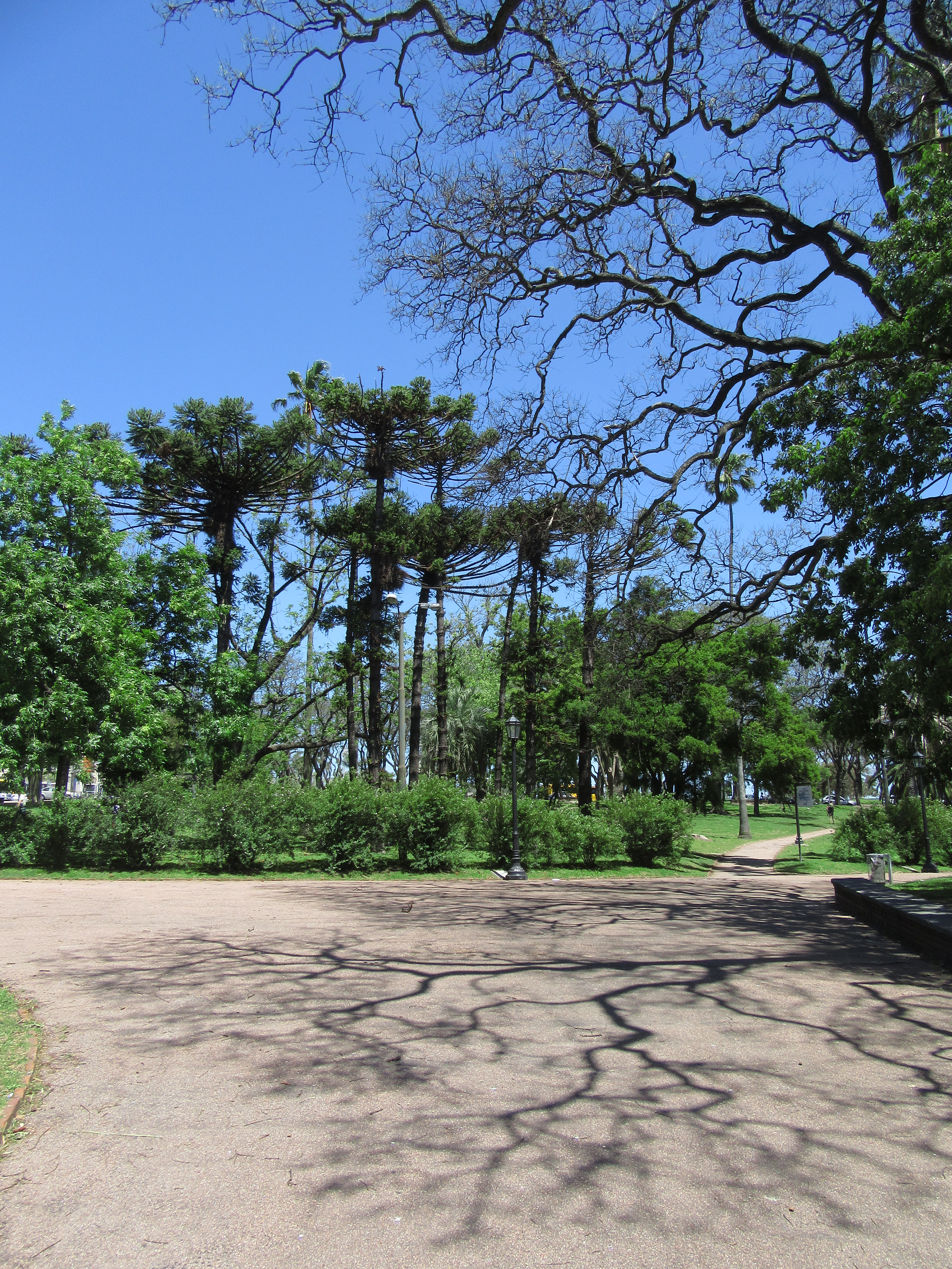 Montevideo